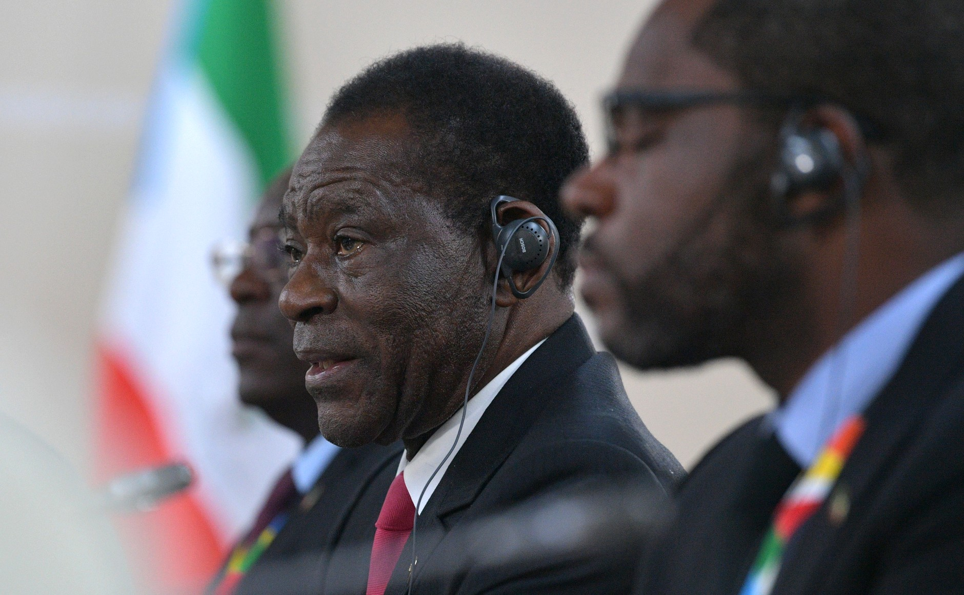 President of Equatorial Guinea Teodoro Obiang Nguema Mbasogo.